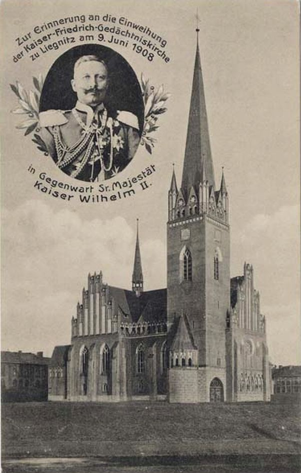 former memorial church for the german emperor Friedrich III. in Liegnitz / Legnica, Silesia, Poland, inaugurated in 1908